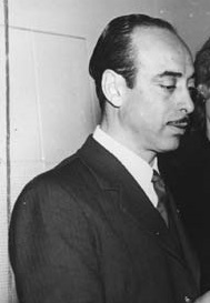 Horacio Torrado- actor